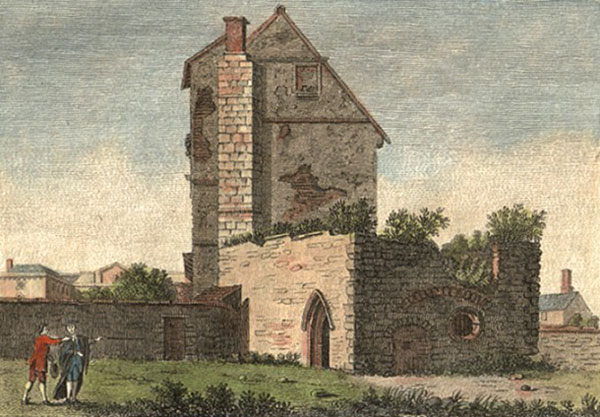 The remains of Beaumont Palace in 1785